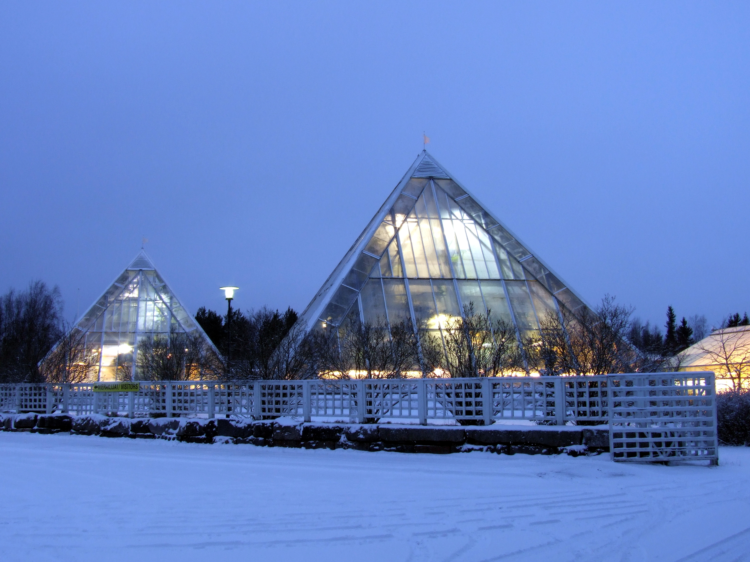 Pyramid shaped greenhouses of Botanical Gardens of Oulu University.